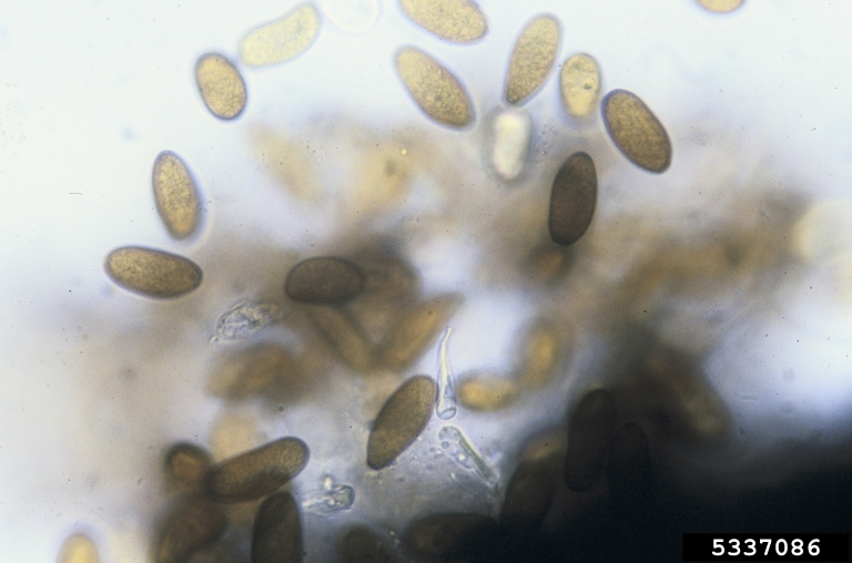 Asexual Spore (conidia) of fungus : Diplodia blight (Sphaeropsis ; incertae sedis)